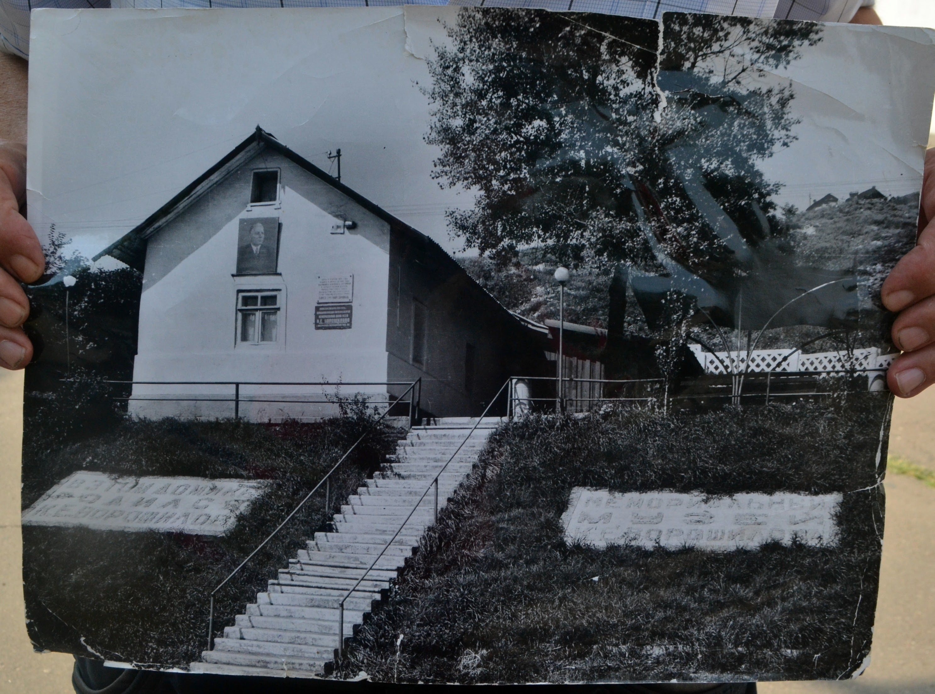 Voroshilov house in Lysychansk